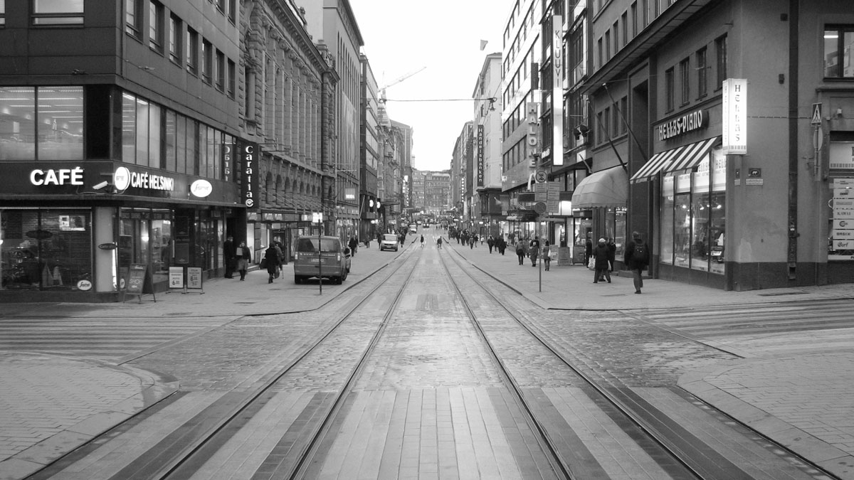 Aleksanterinkatu street in Helsinki, Finland